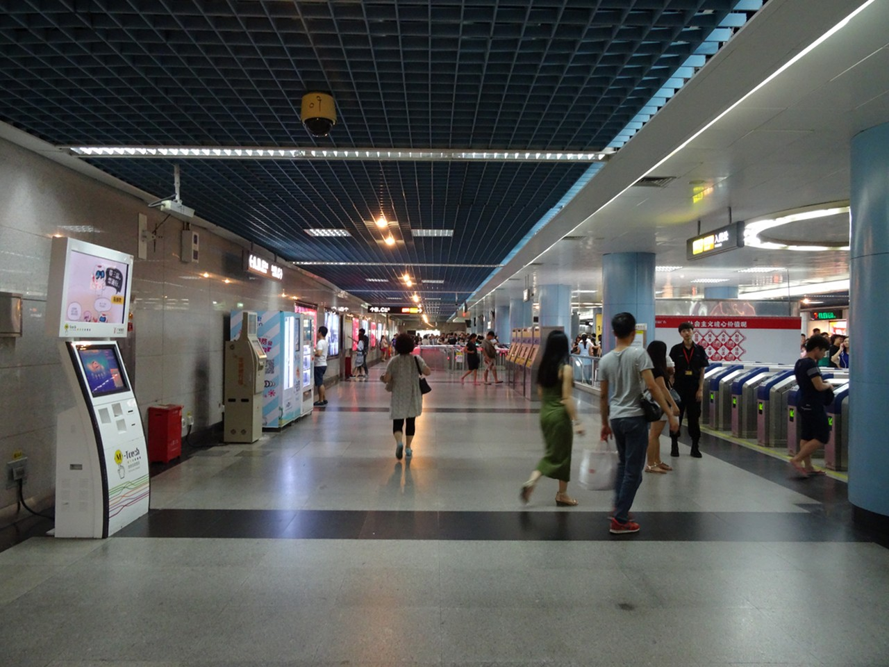 體育西路站1號線站廳